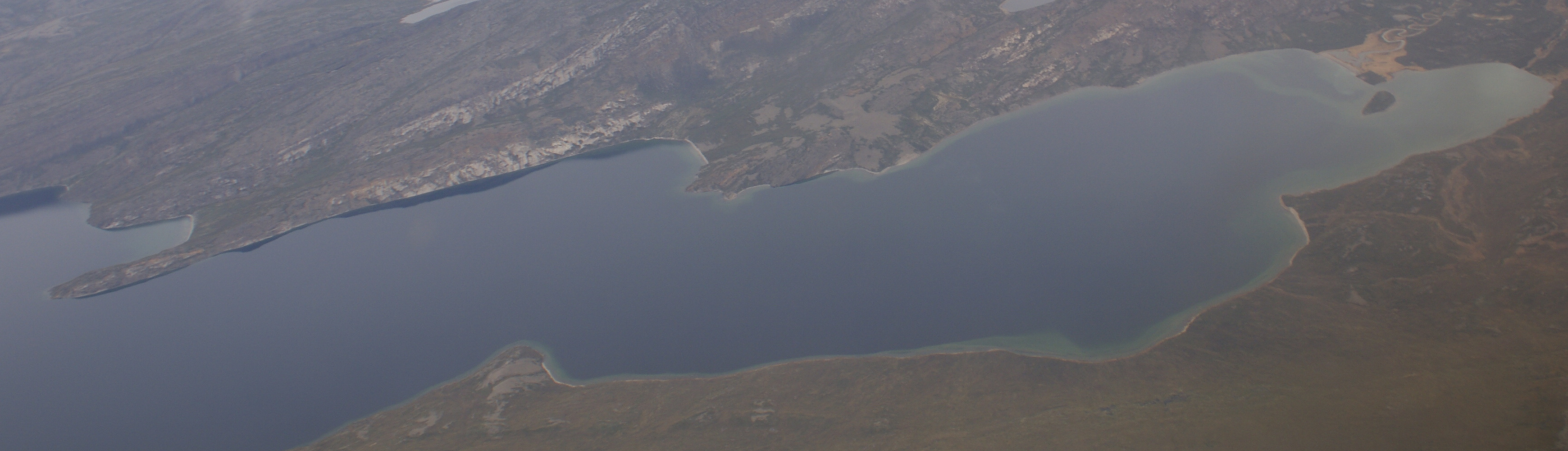 Aerial view of the eastern end of Tasersuaq lake in central-western Greenland. Photographed in very poor visibility conditions from the Air Greenland de Havilland Canada Dash-7 "Sapangaq" during the Kangerlussuaq-Sisimiut flight.